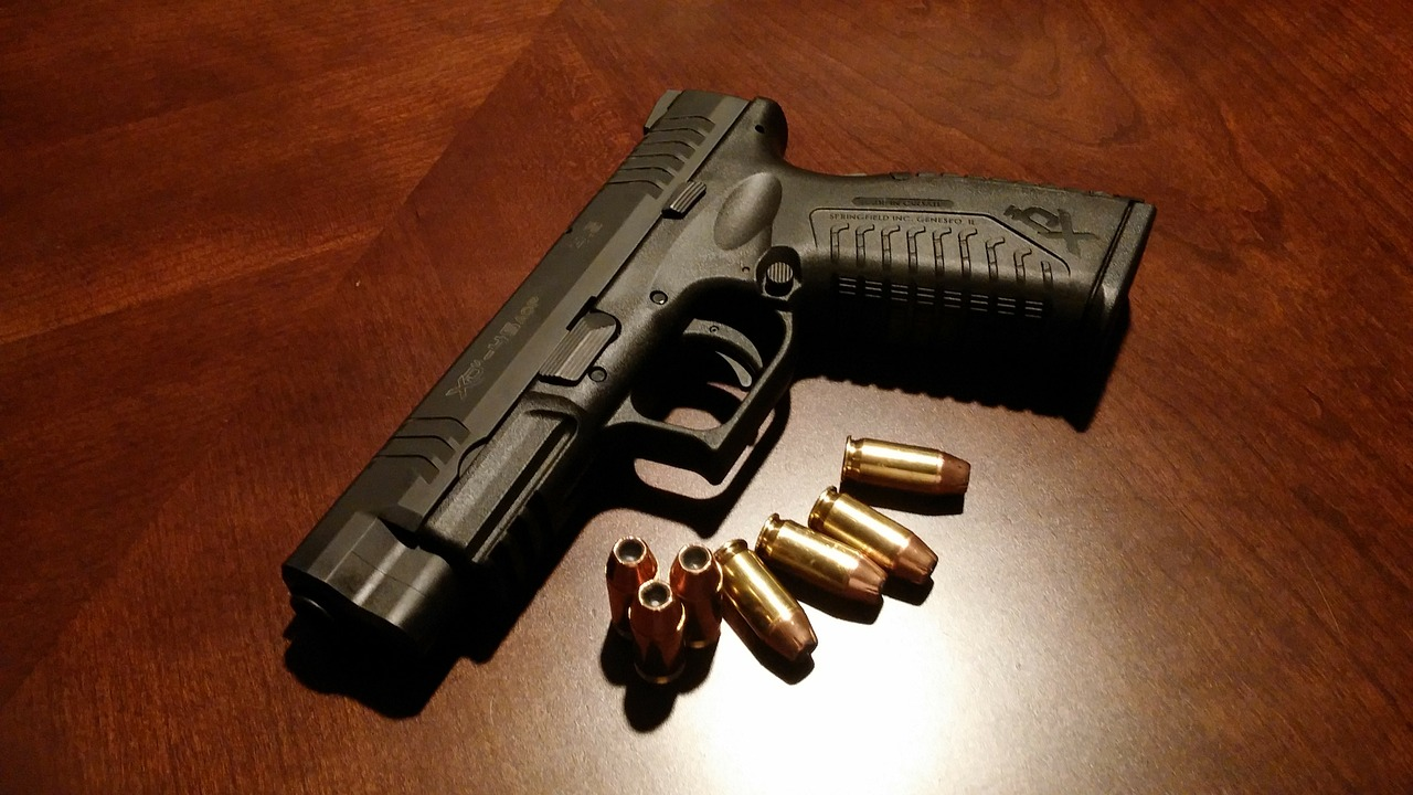 .45acp version XDM pistol